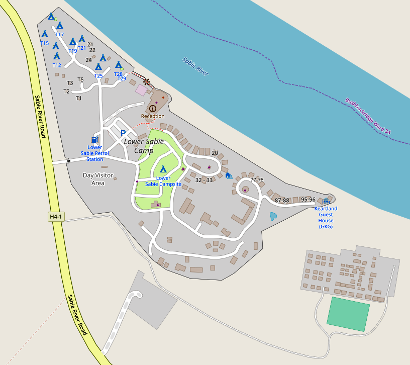 OpenStreetMap map of the Lower Sabie camp This map may be incomplete, and may contain errors. Don't rely solely on it for navigation.